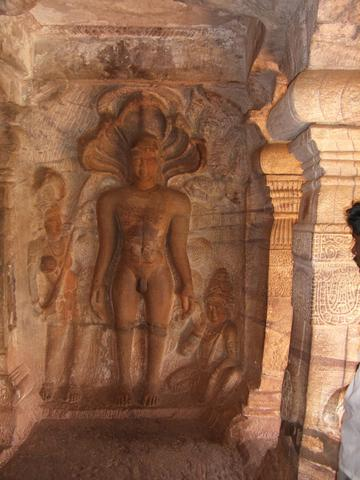 This Photograph was taken by Sudarshan Bhat Khandige at Pattadakal, Karnataka in 2006. The Image has been uploaded with full permission from the owner (who is a friend of mine)